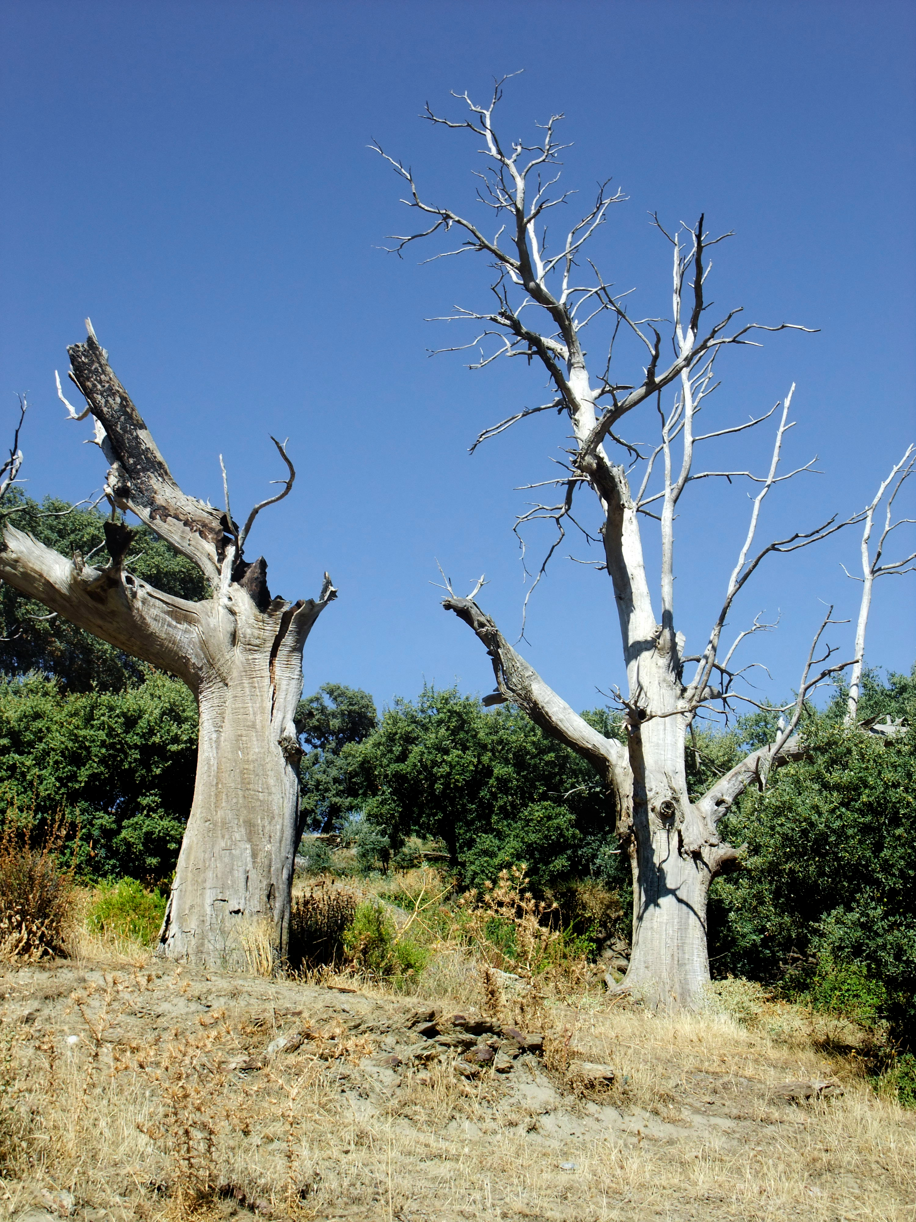 Landscape east of Portugos, Granada in Spain